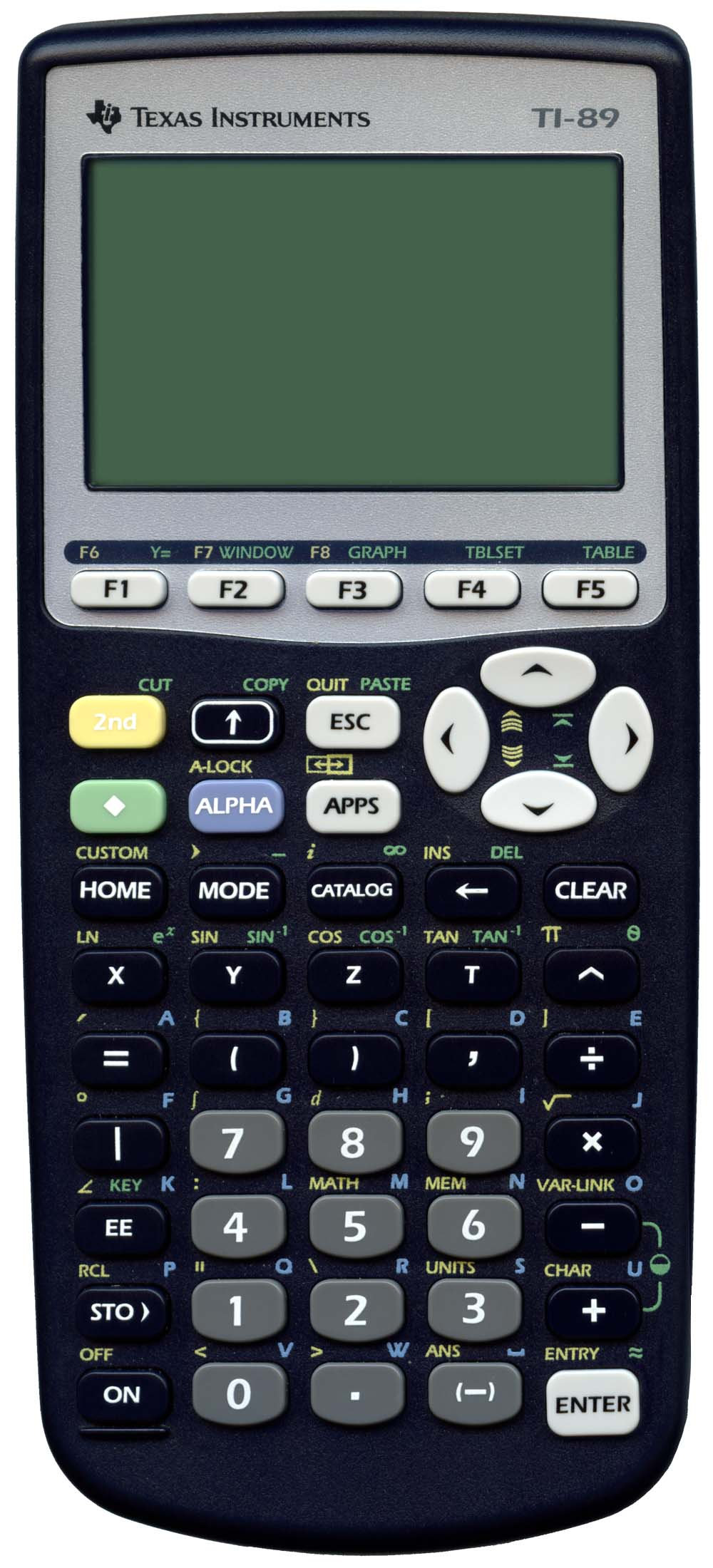 Texas Instruments TI-89